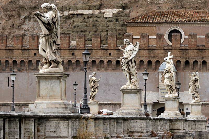 Angels in Ponte Sant'Angelo (Rome, Italy)